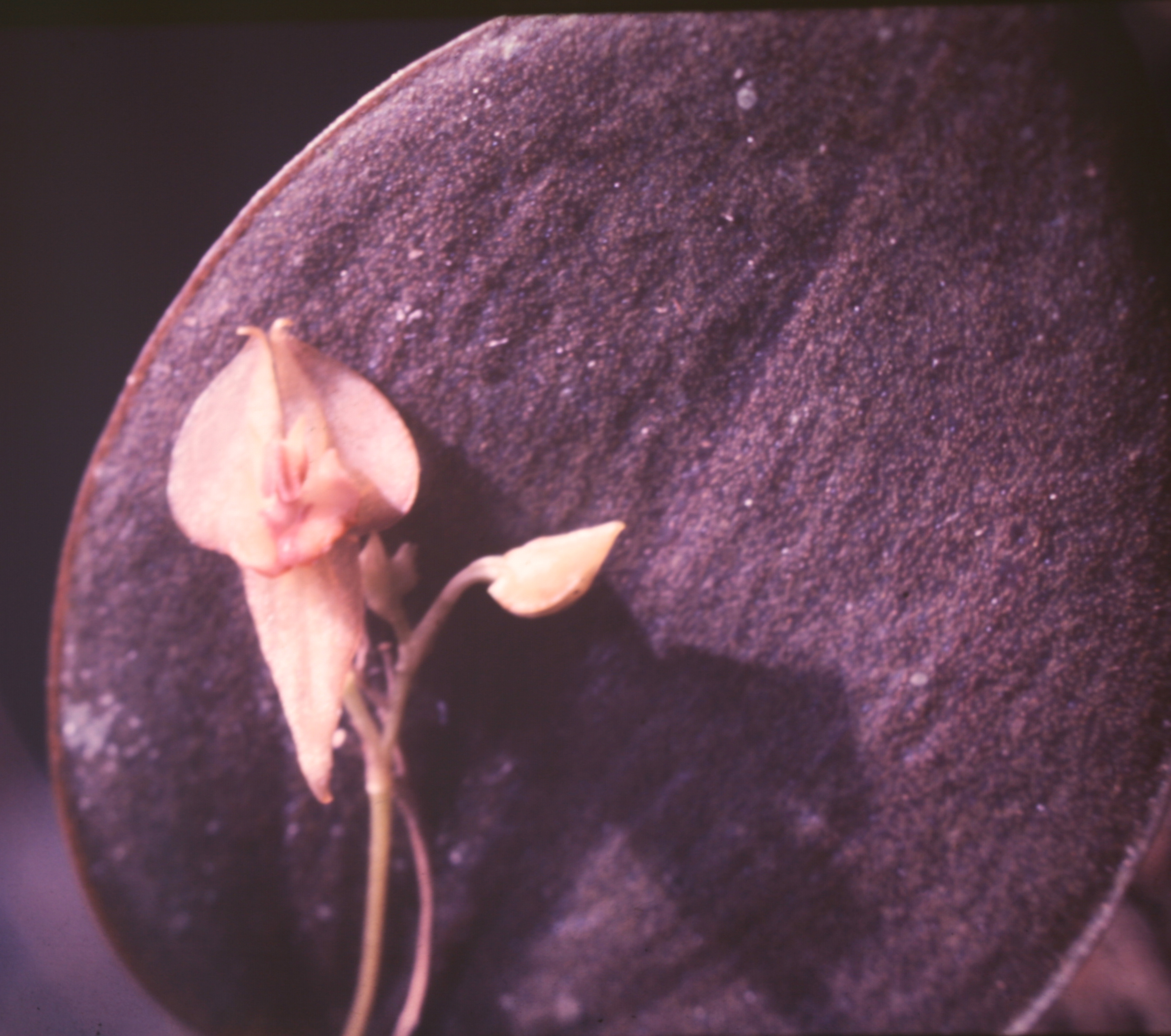 Lepanthes helicocephala. Found in Suriname, 1972-1982.